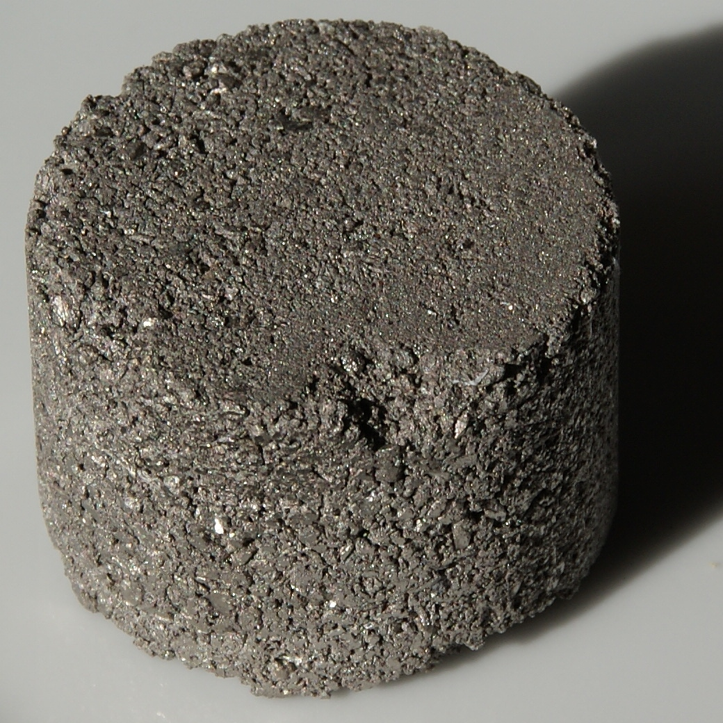 Titanium cylinder, 3 x 4 cm, 120 grams.